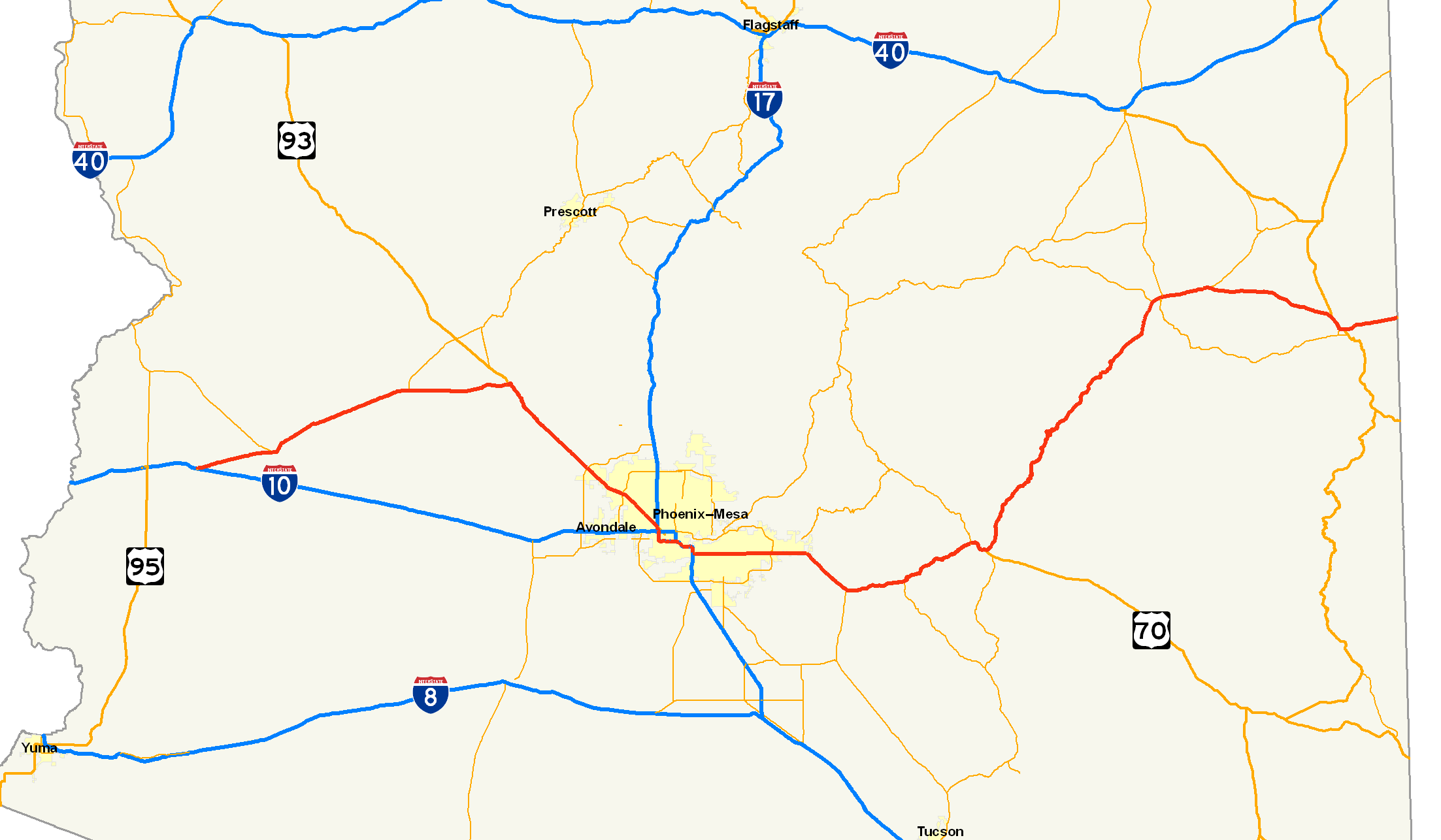 Map of U.S. Route 60 in Arizona